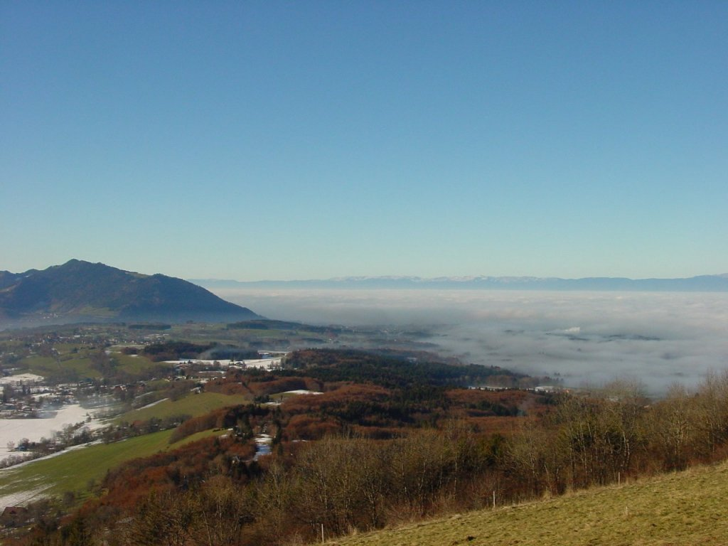 Pays Gavot (Haute-Savoie) seen from Mont Bénand. On the left the village of Vinzier, in the background the Jura mountains, and under the clouds Lake Geneva.